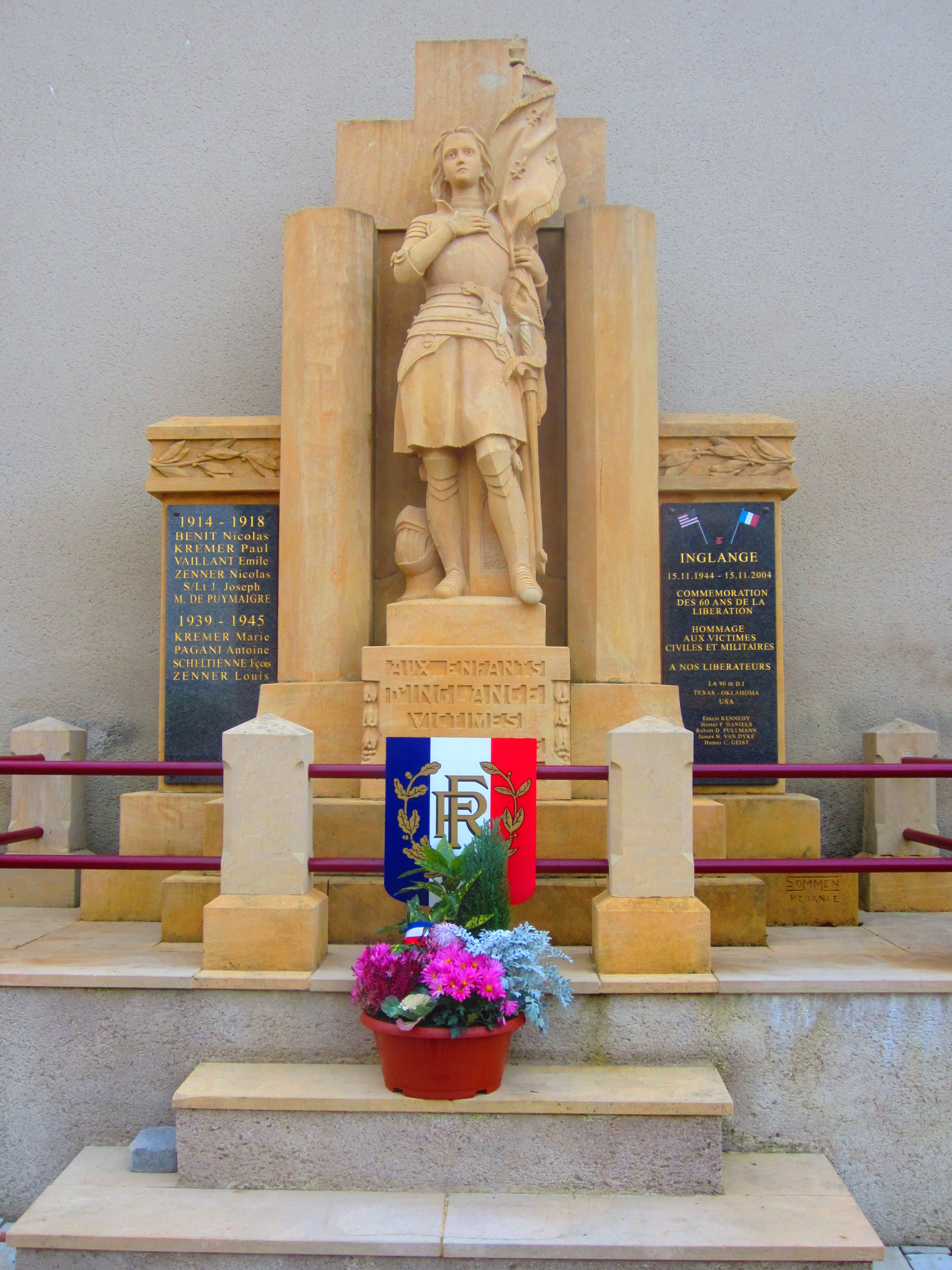 Description monument Inglange Date23 November 2011Sourcemon appareil photoAuthorAimelaimePermission(Reusing this file) monument Inglange